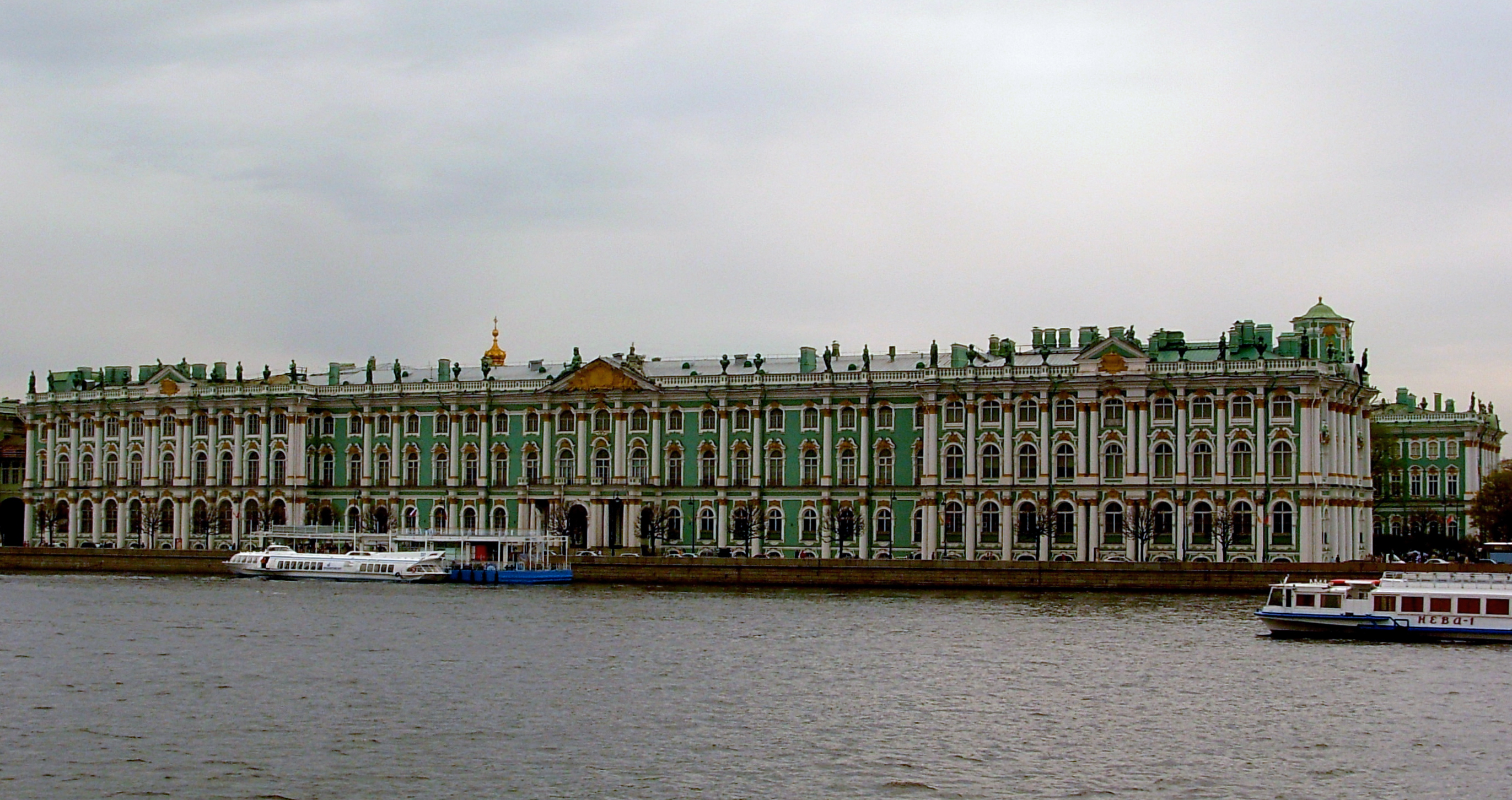 Hermitage from the Palace Embankment side